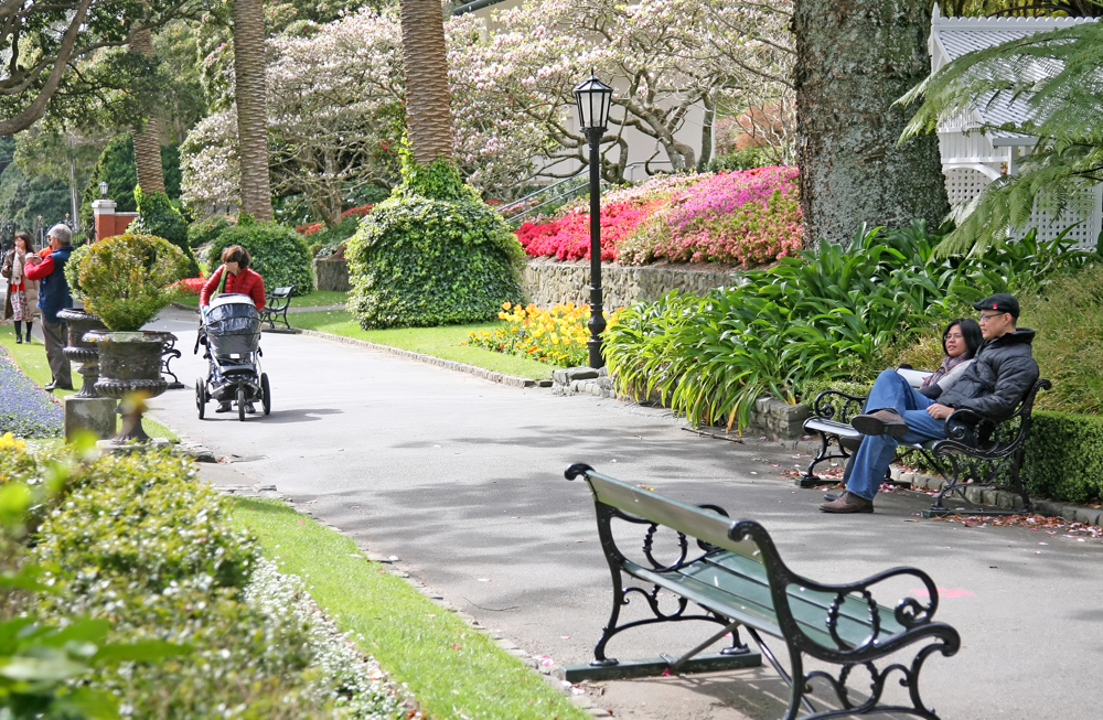 Wellington Botanical Gardens